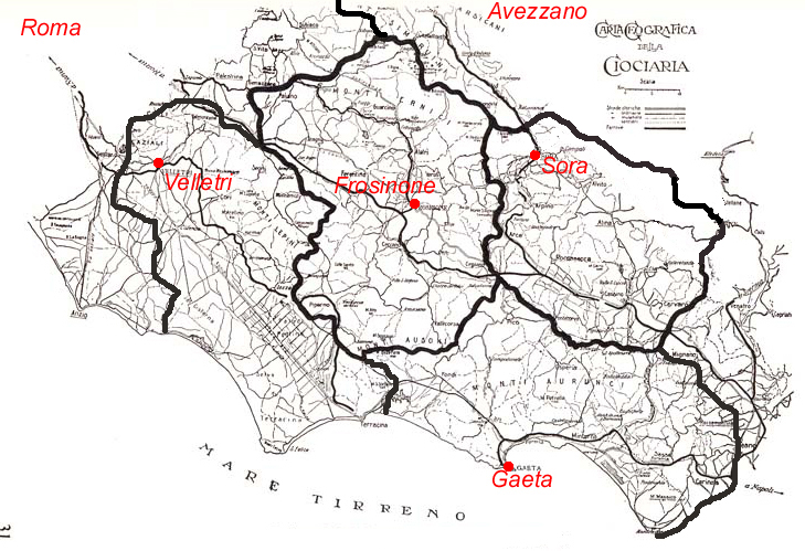 Cipolla's Ciociaria